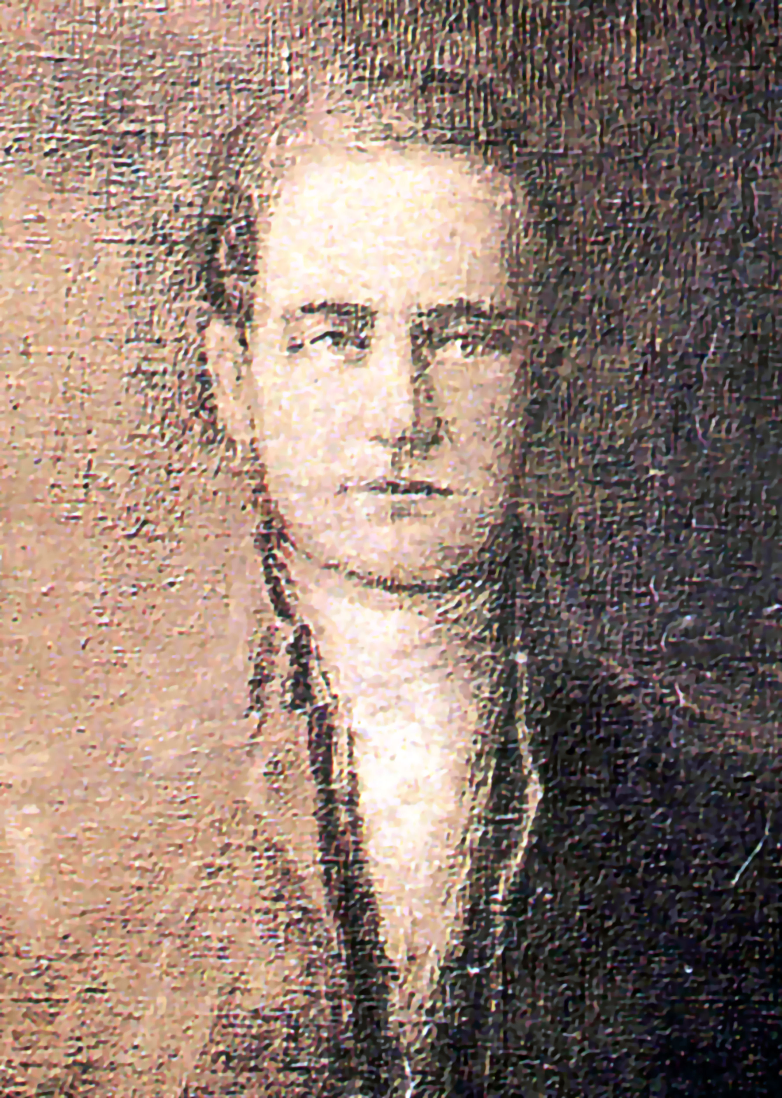 A facial composite portrait of John Hathorn done in 1907, eighty two years after his death, by C. Brower Darst. The composite was based on descriptions of Hathorn by his family and by the appearance of his descendants.